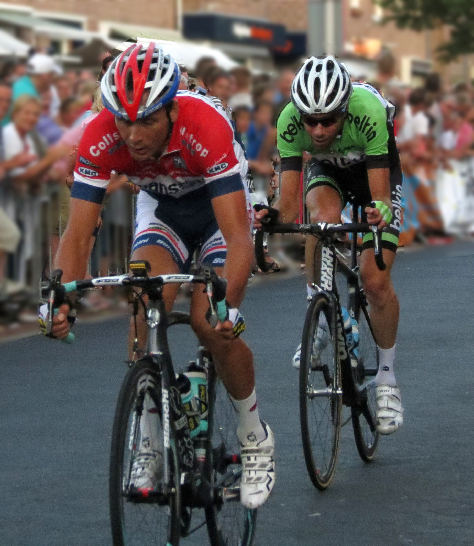 Johnny Hoogerland and Laurens ten Dam in the last round of the Wateringse Wielderdag 2013, in Wateringen, The Netherlands